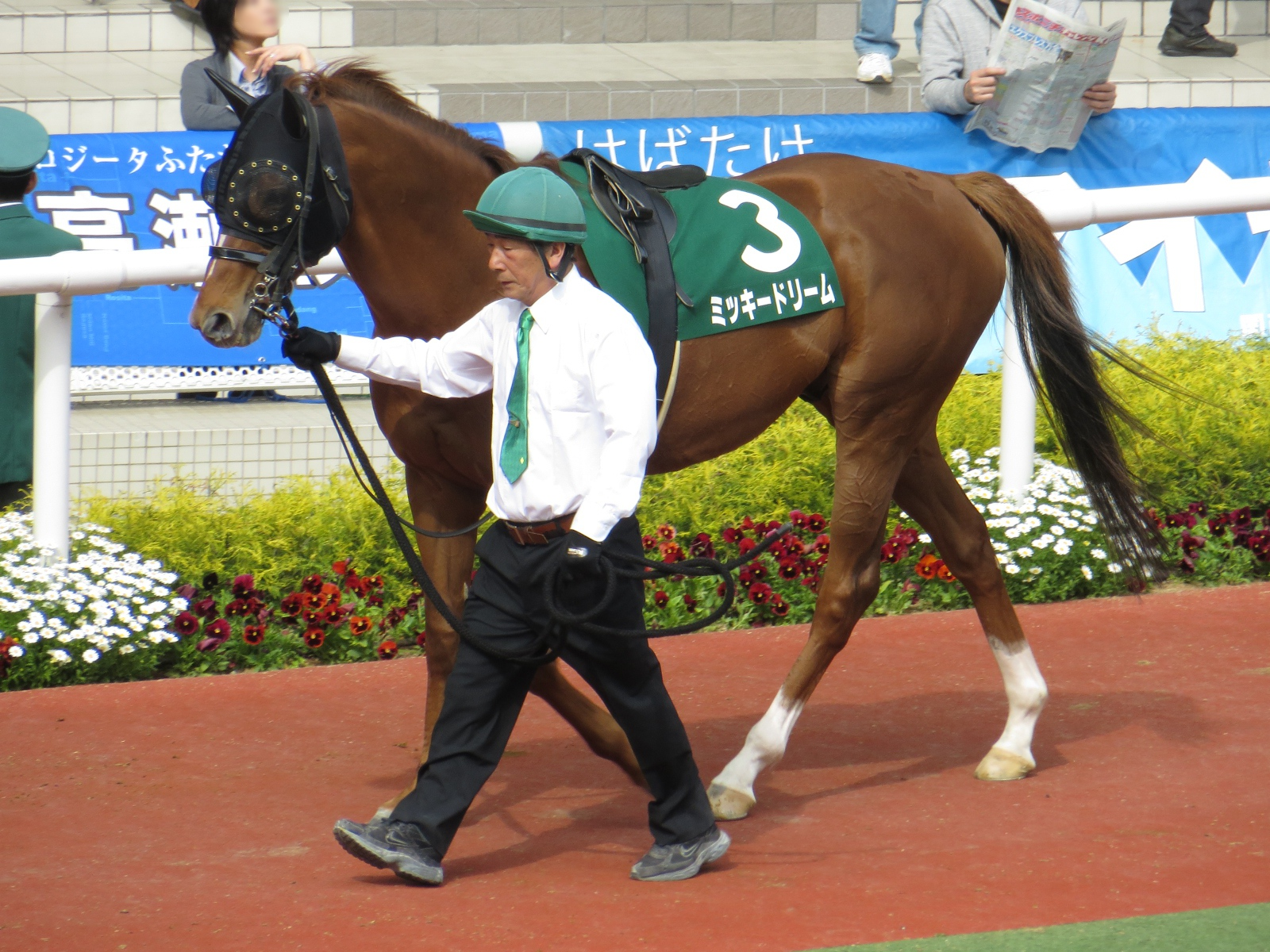 Mikki Dream (Racehorse of Japan).